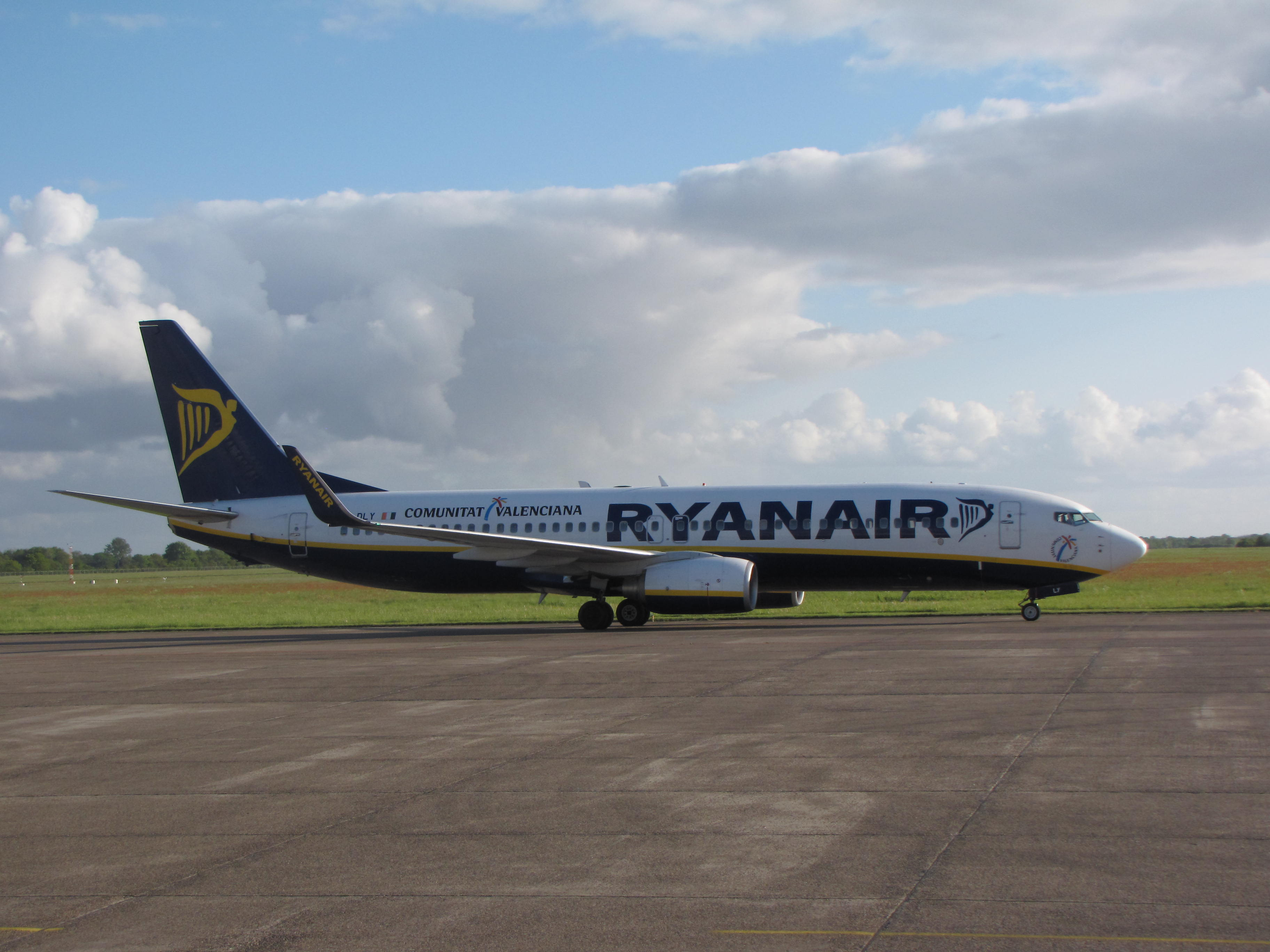 Ryanair at Groningen Airport Eelde, registrationnumber: EI-DLY